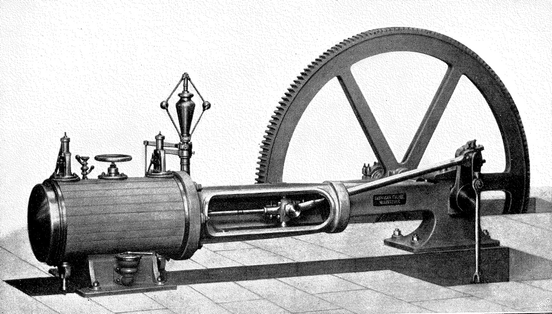 first horizontal valve steam engine, construction type Sulzer, 1867